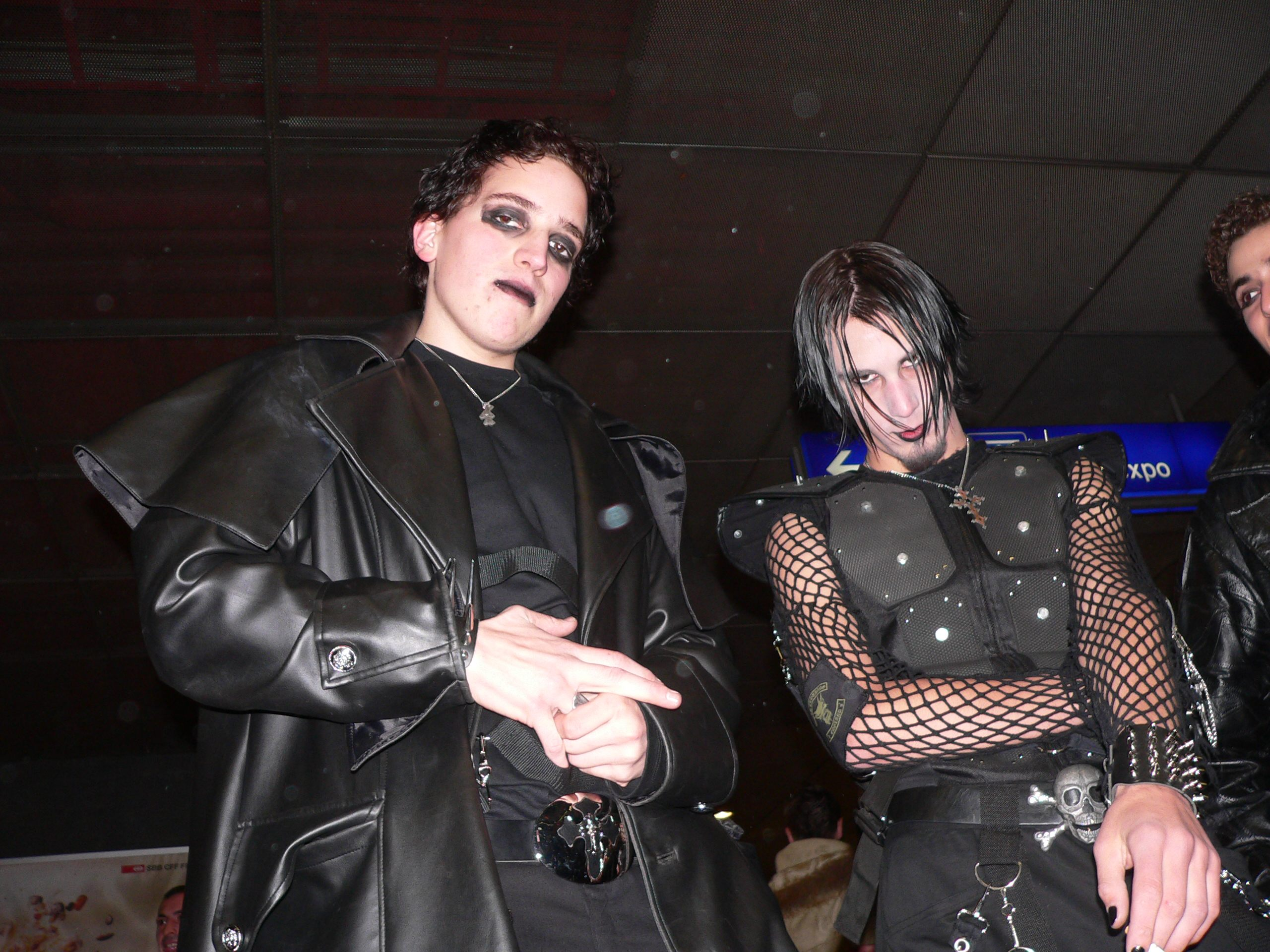 Quite nice goth people met in Basel train station